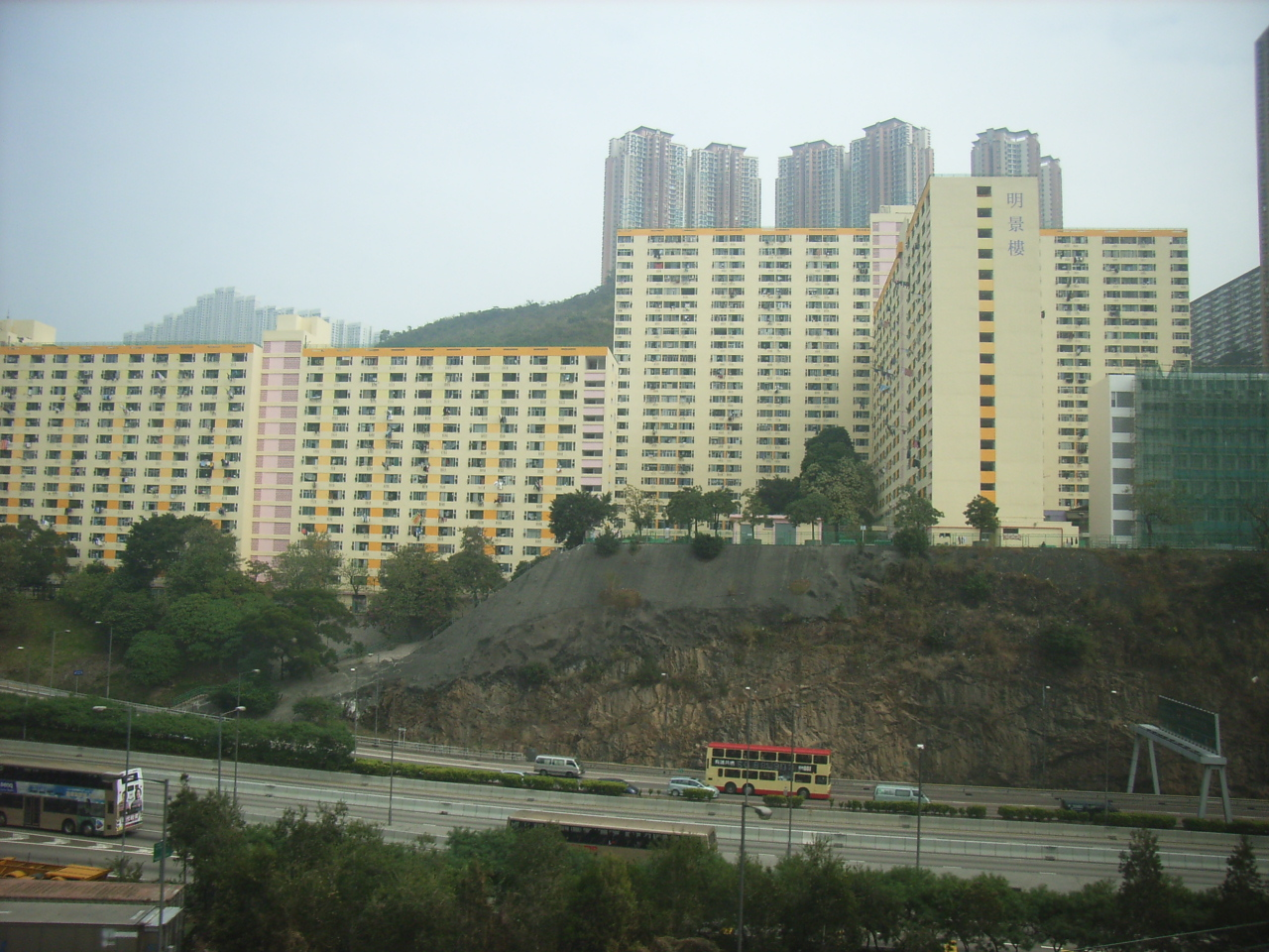 葵涌道, Kwai Chung Road & 明景樓, Ming King House, 荔景邨, Lai King Estate, 下葵涌, Ha Kwai Chung, 香港, Hong Kong. (Photo created by User:TUmuMATo)。